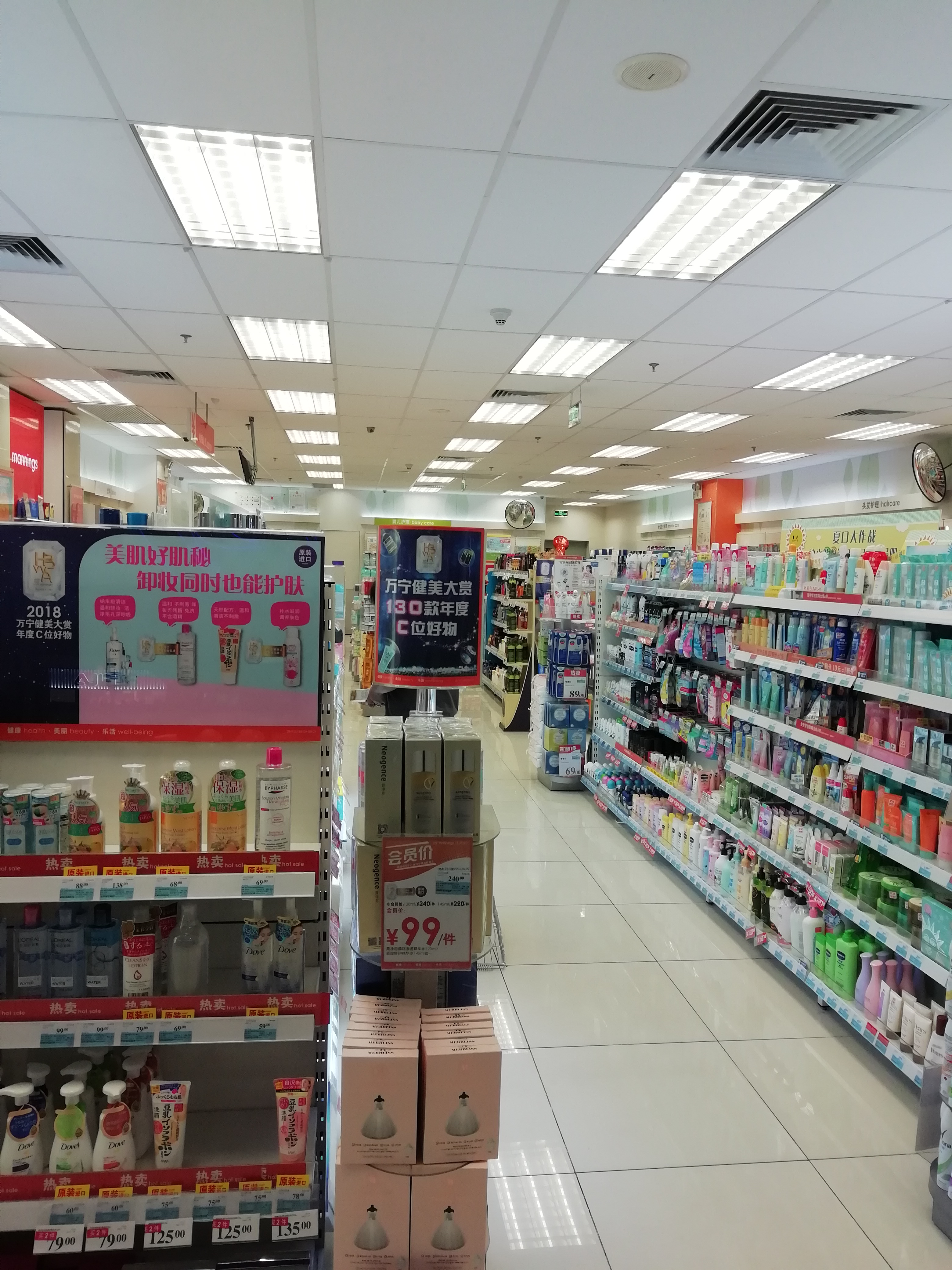 A "C Wei" poster, taken in Mannings Store in Suzhou, China. The "C Wei" means "at center", and it is an Internet phenomena. 中文（中国大陆）: 苏州万宁门店内的“C位好物”宣传物。“C位”是中国大陆著名的网络流行语。